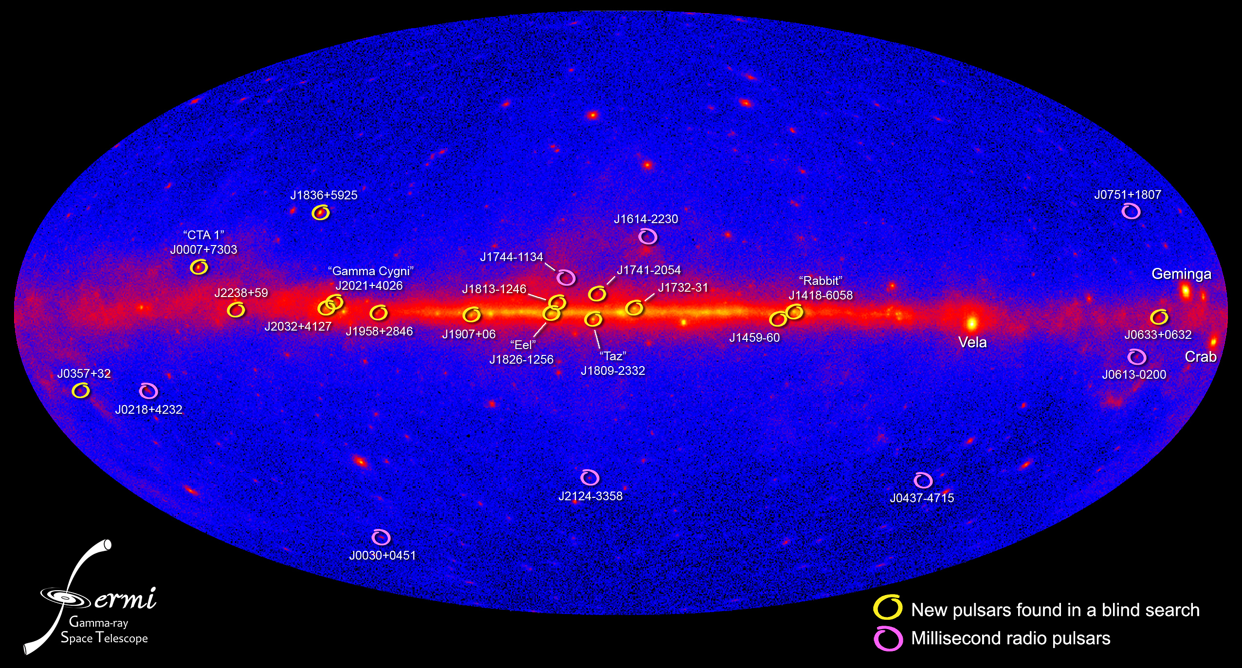 This all-sky map shows the positions and names of 16 new pulsars (yellow) and eight millisecond pulsars (magenta) studied using Fermi's LAT. The famous Vela, Crab, and Geminga pulsars (right) are the brightest ones Fermi sees. The pulsars Taz, Eel, and Rabbit have taken the nicknames of nebulae they are now known to power. The Gamma Cygni pulsar resides within a supernova remnant of the same name.